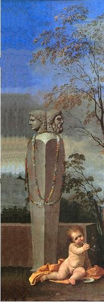 HERME, DETAIL OF THE PAINTING "A DANCE TO THE MUSIC OF TIME".